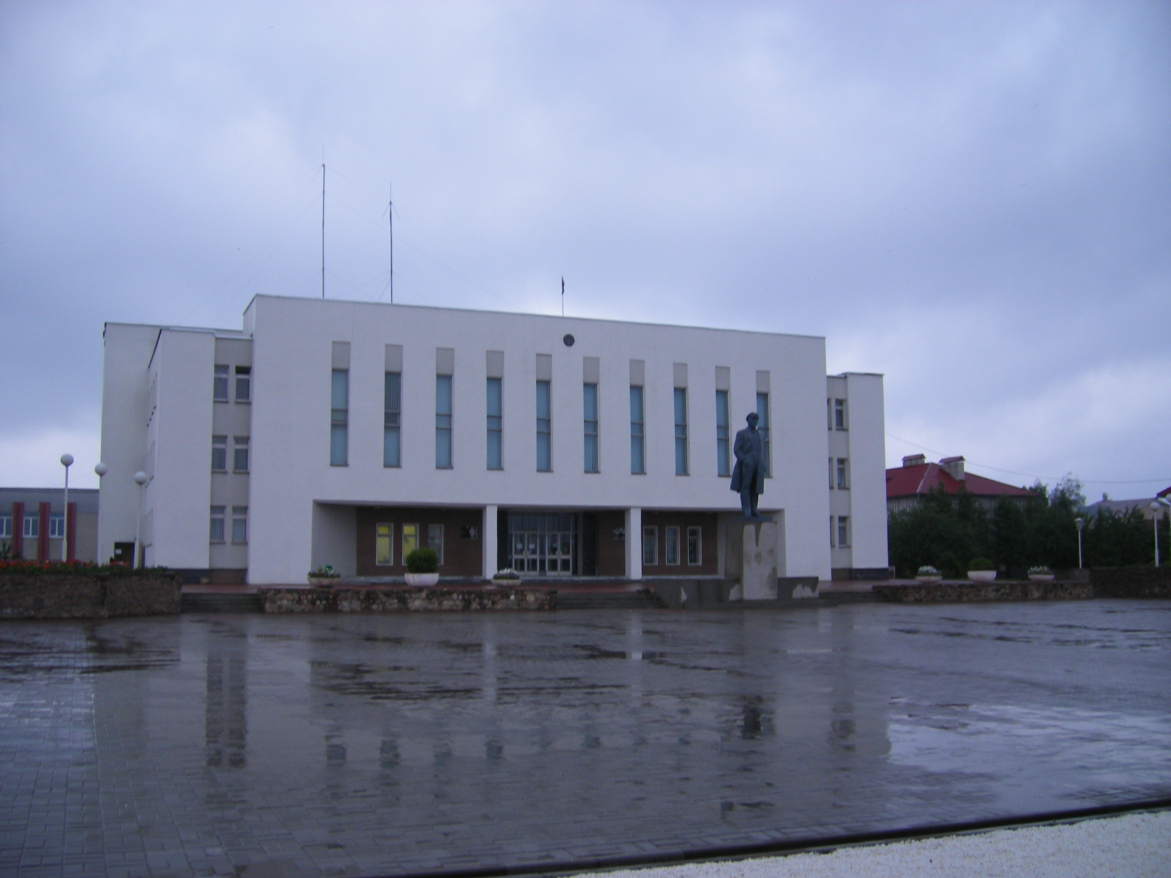 Myadzel, Raion Administration Building